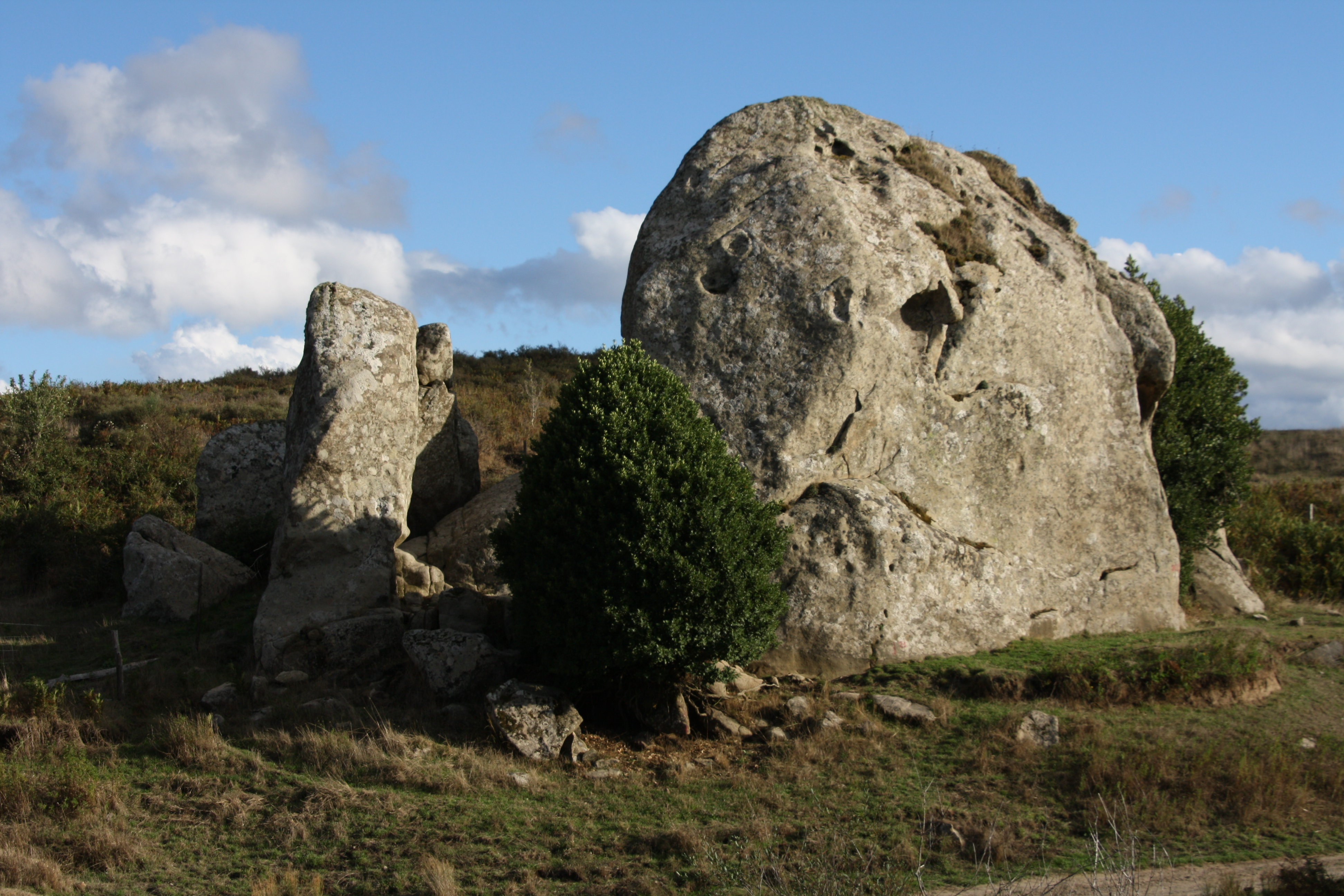 Alambic stone, natural rock formation.